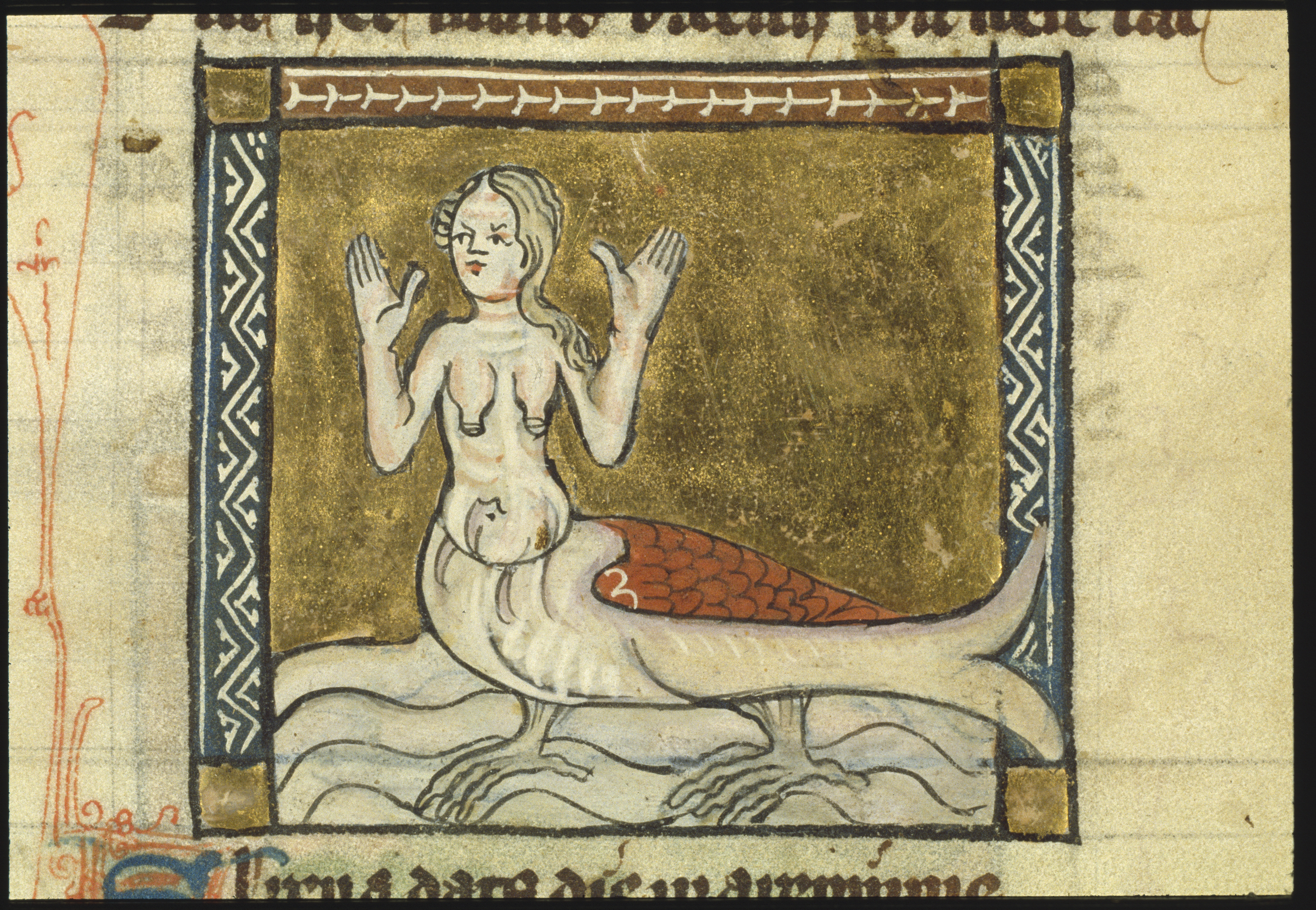 Syrena (syren) - miniature from folio 109r from Der naturen bloeme (KB KA 16) by Jacob van Maerlant Topics depicted in this miniature Merman - aa - mermaid, siren (31AA4561) This miniature is part of the righthand side folio 109r